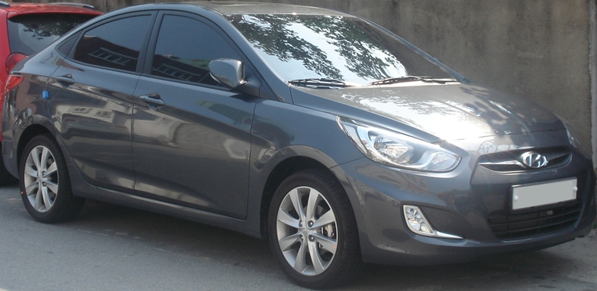 Hyundai Accent